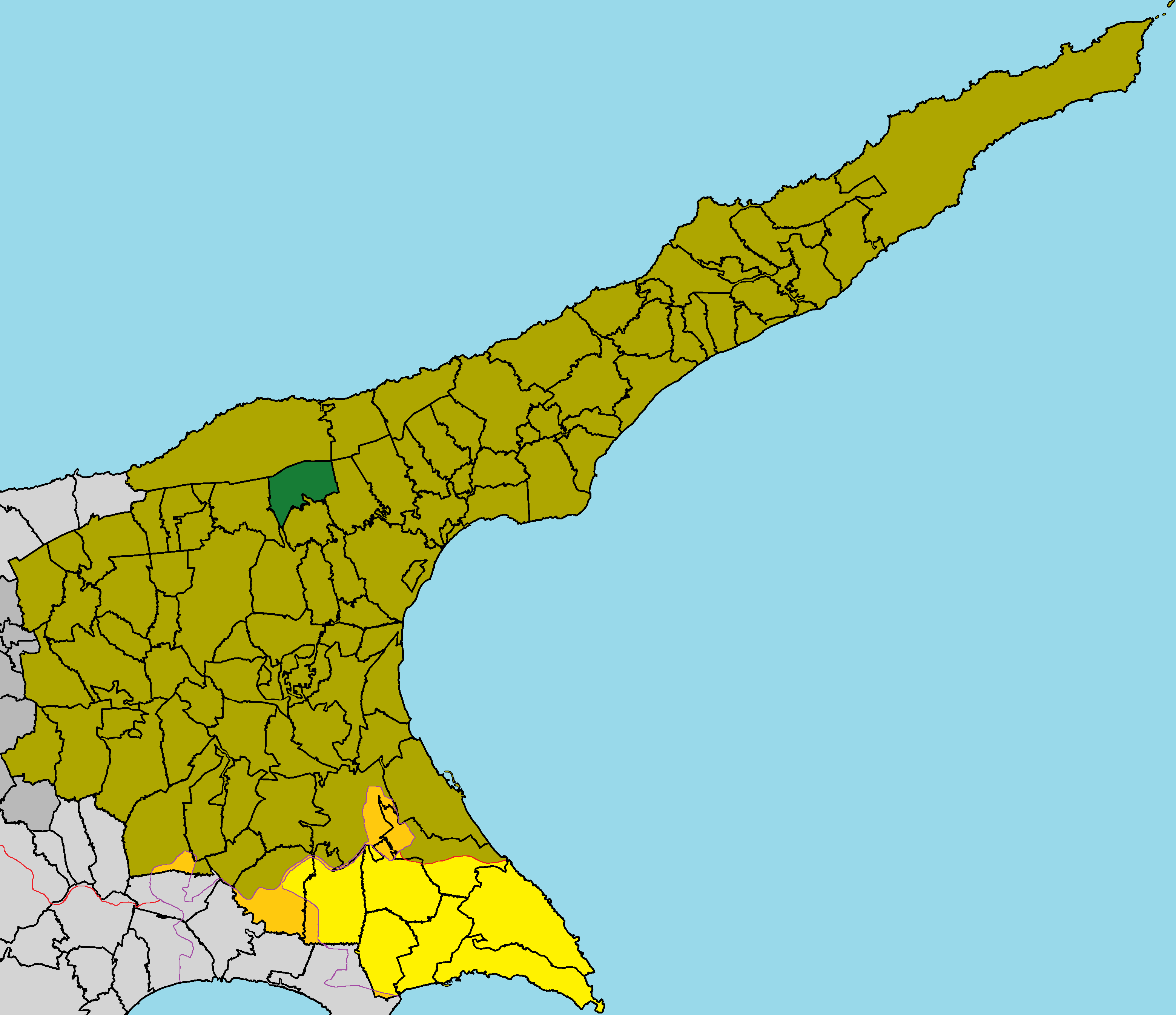 Mandres Ammochostou in Famagusta District (de jure).